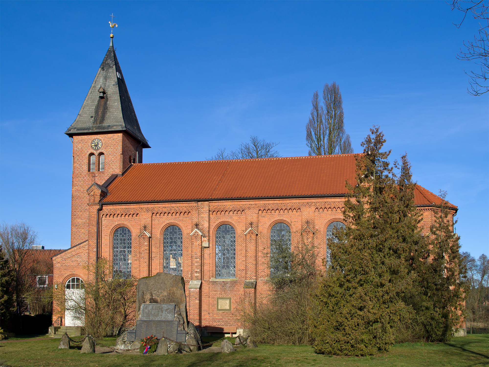 Church of Breselenz (district Lüchow-Dannenberg, northern Germany).